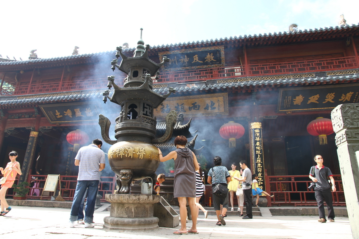 Puji Temple on Putuo Shan island